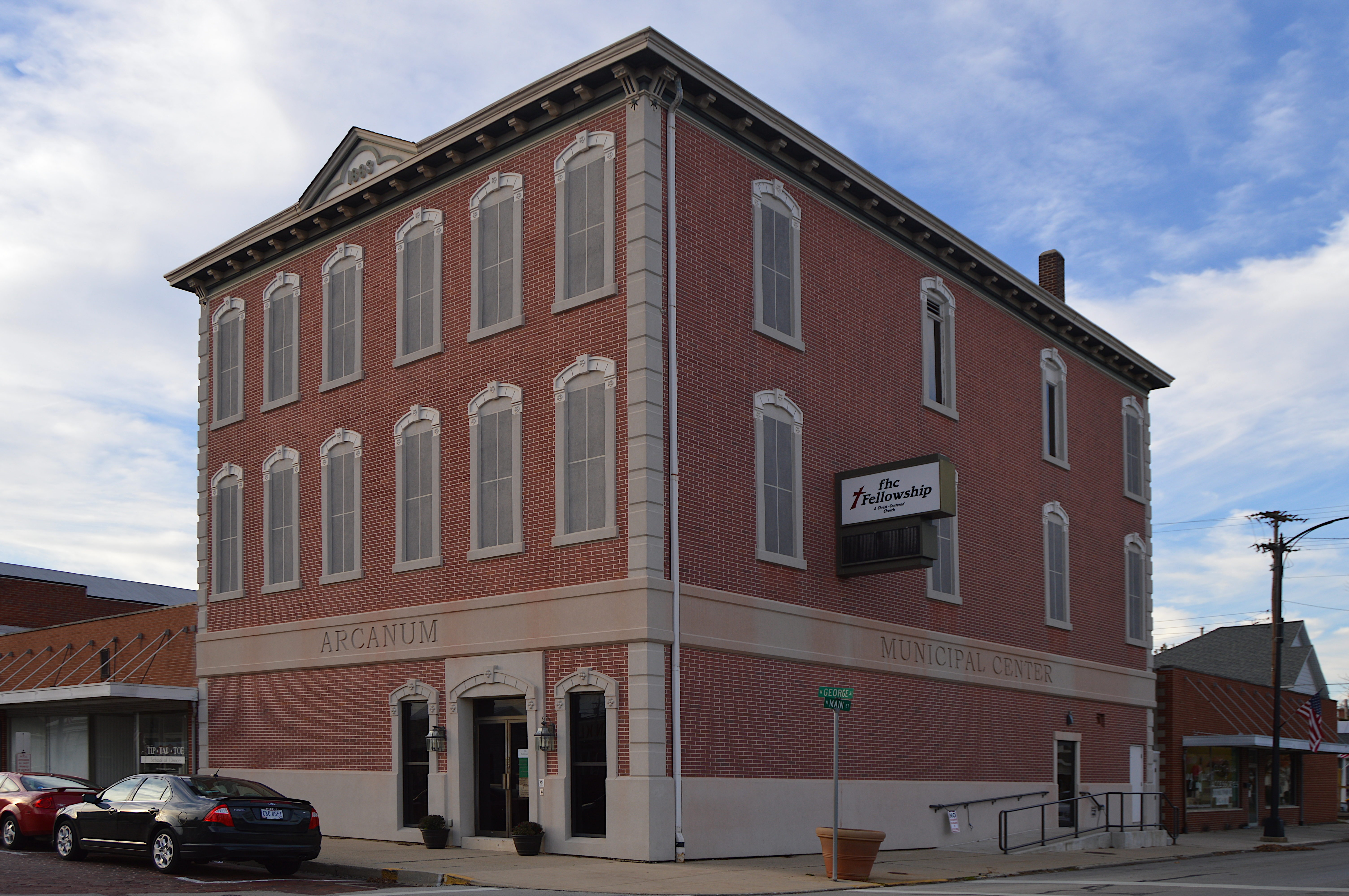 Front and eastern side of the Arcanum Municipal Center (town hall and community building), located on the northwestern corner of the junction of Main (State Route 49) and George Streets in Arcanum, Ohio, United States. It was built in 1883.